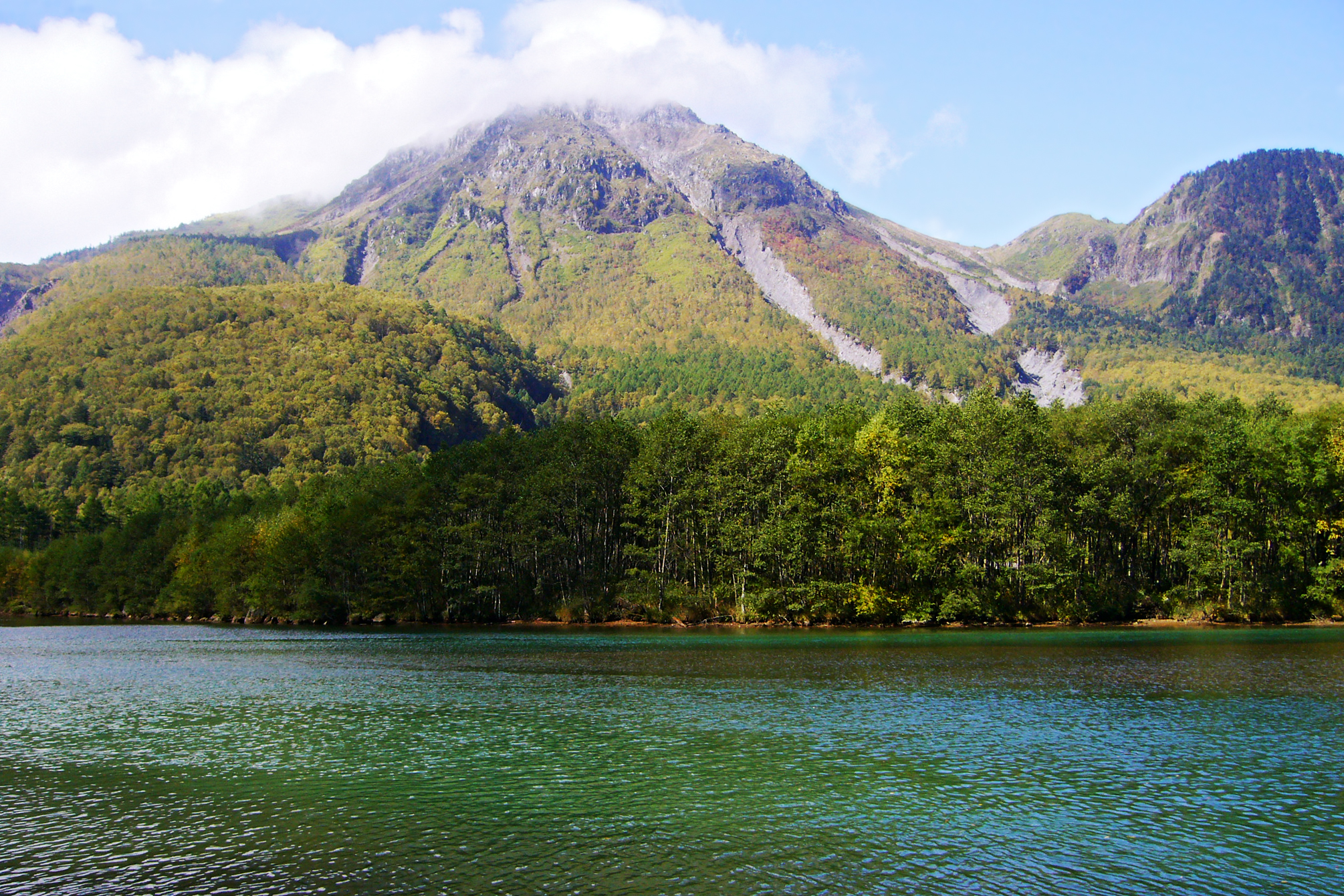 Mount Yake-dake at Kamikochi, Matsumoto, Nagano prefecture, Japan